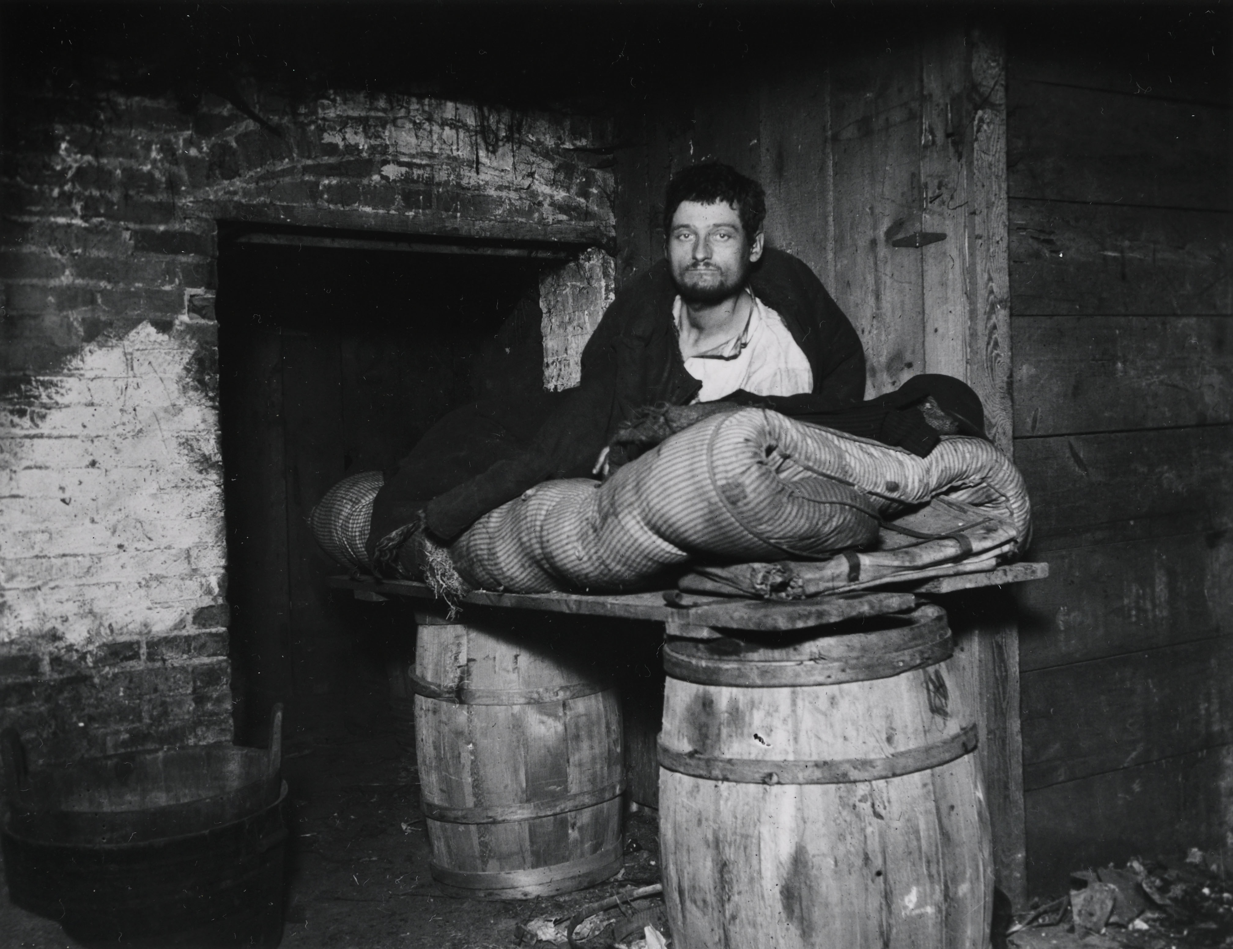 One of four pedlars who slept in the celler of 11 Ludlow Street rear.